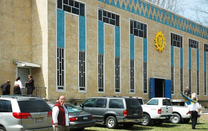 Ukrainian Sylenkoite neopagan people worship building in Spring Glen, New York.